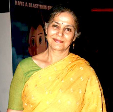 Suhasini Mulay